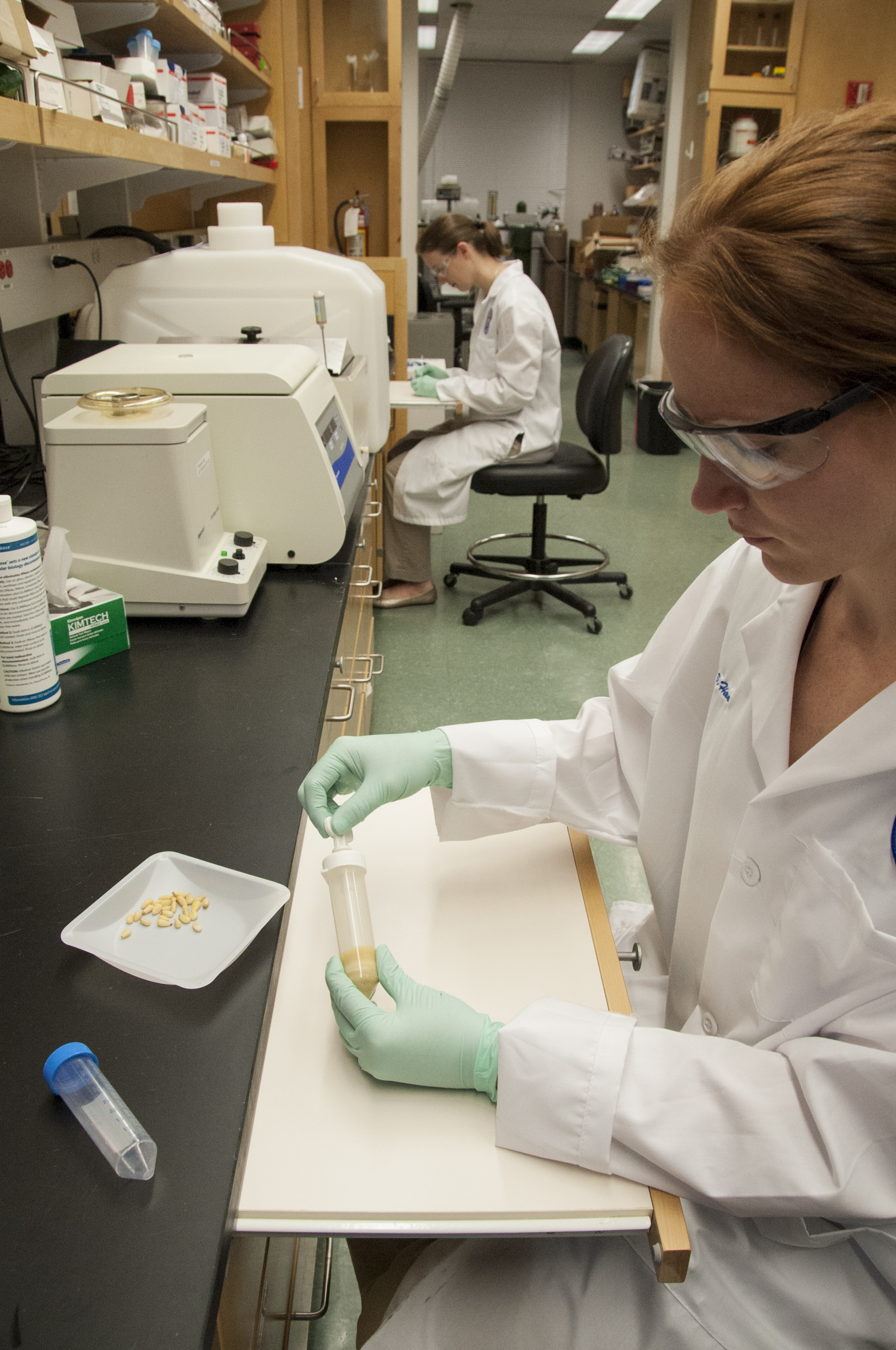 FDA researcher Dr. Sara Handy (foreground) grinds up pine nuts for DNA analysis. Hundreds of FDA scientists are working to develop the tools needed to keep bacterial and chemical contaminants out of the food supply, and to rapidly identify the disease-causing bacteria that do infiltrate foods and cause outbreaks of foodborne illnesses. Among them are the researchers at FDA's Center for Food Safety and Applied Nutrition (CFSAN), in College Park, Md. This photo is free of all copyright restrictions and available for use and redistribution without permission. Credit to the U.S. Food and Drug Administration is appreciated but not required. Privacy and use information: FDA photo by Michael J. Ermarth